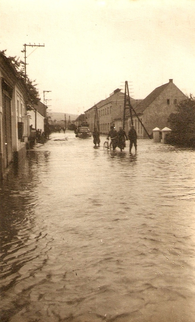 Flood in Katovice 1954